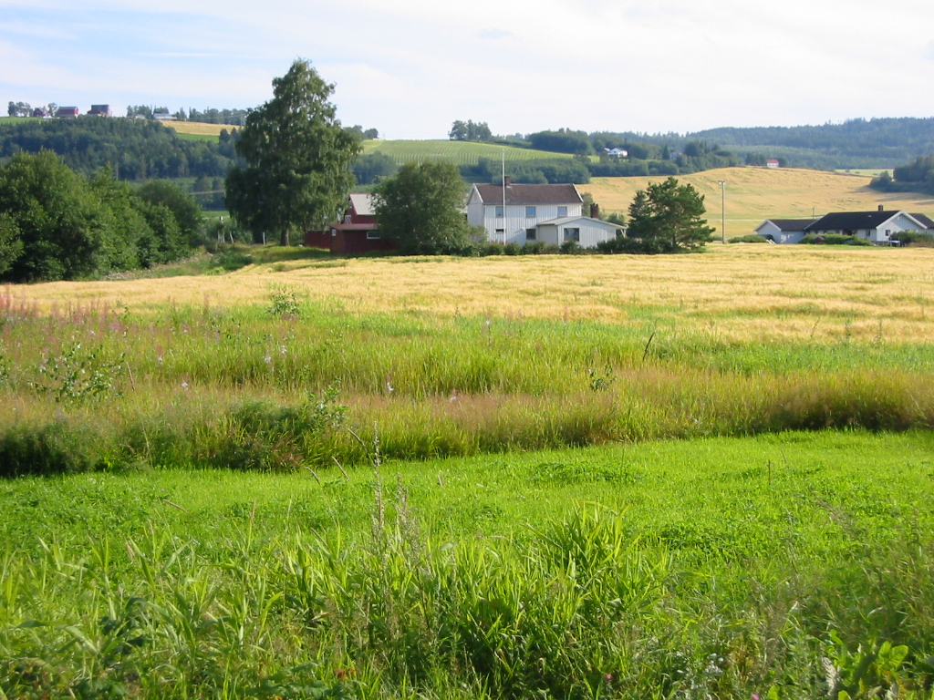 Typical agricultural landscape in Verdal, near Trondheimsfjord, Nord-Trøndelag county, Norway.